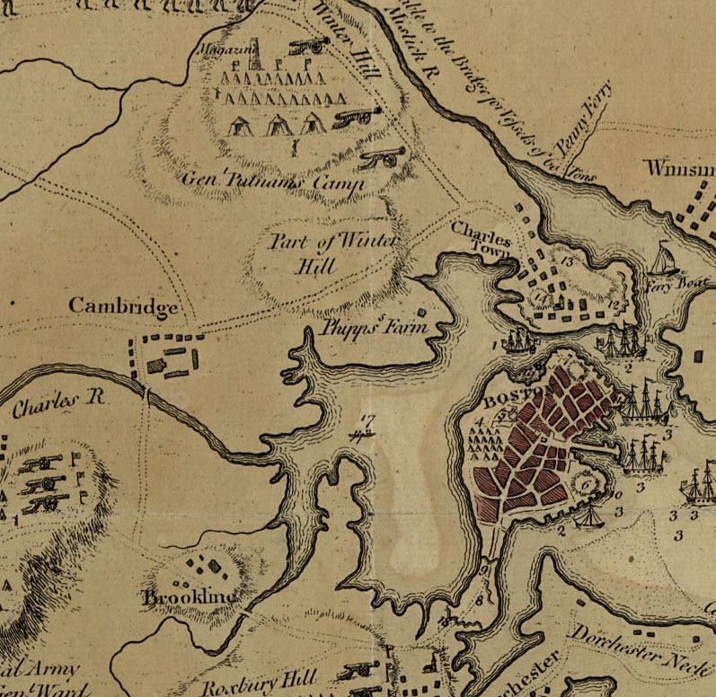 Detail from "A plan of the town and harbour of Boston and the country adjacent with the road from Boston to Concord, shewing the place of the late engagement between the King's troops & the provincials, together with the several encampments of both armies in & about Boston. Taken from an actual survey. Humbly inscribed to Richd. Whitworth by J. De Costa; C. Hall, sc." hand colored map 37 X 49 cm.